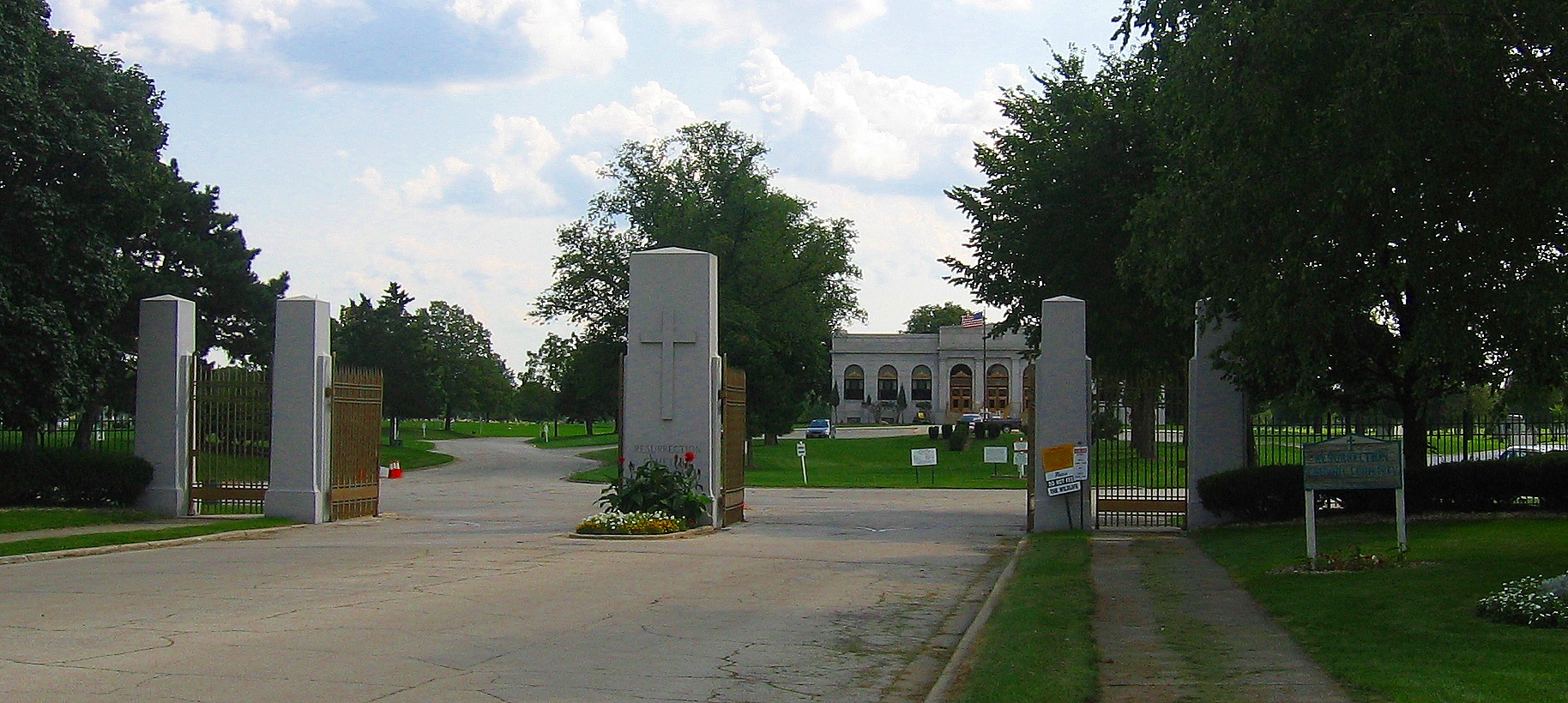 The Resurrection Cemetery in Justice, made famous by the story of Resurrection Mary.